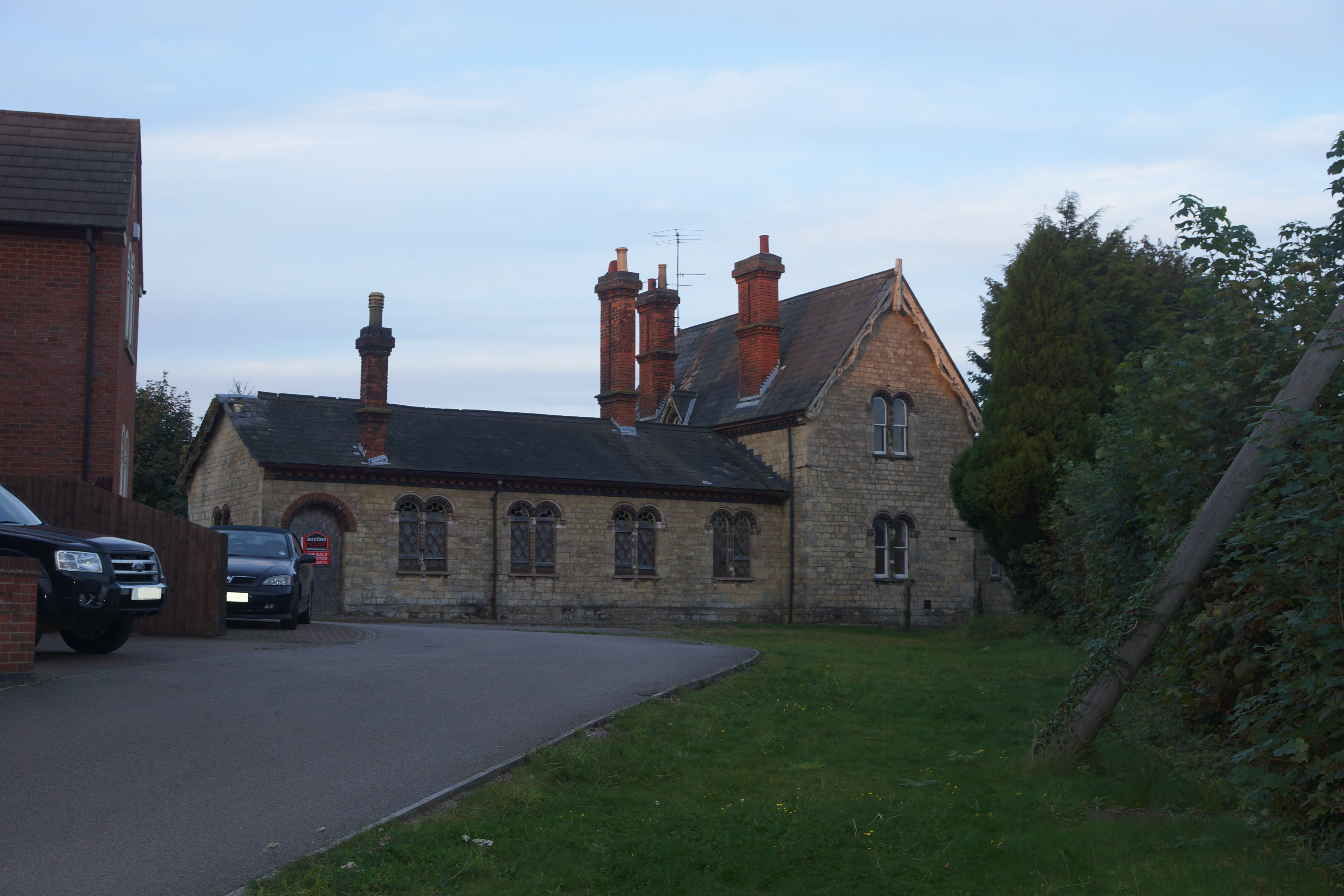 The former railway station at Glendon and Rushton